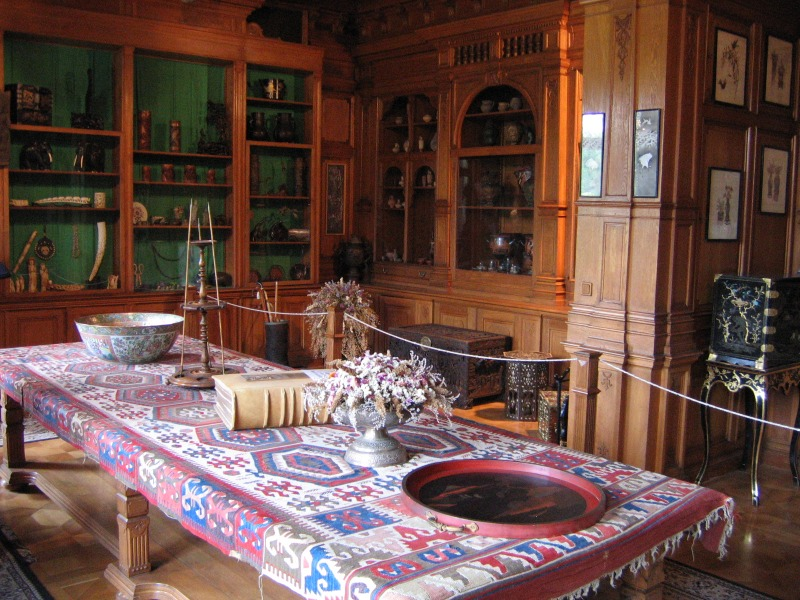 Castle Lešná near Zlín, Czech Republic, september 2006